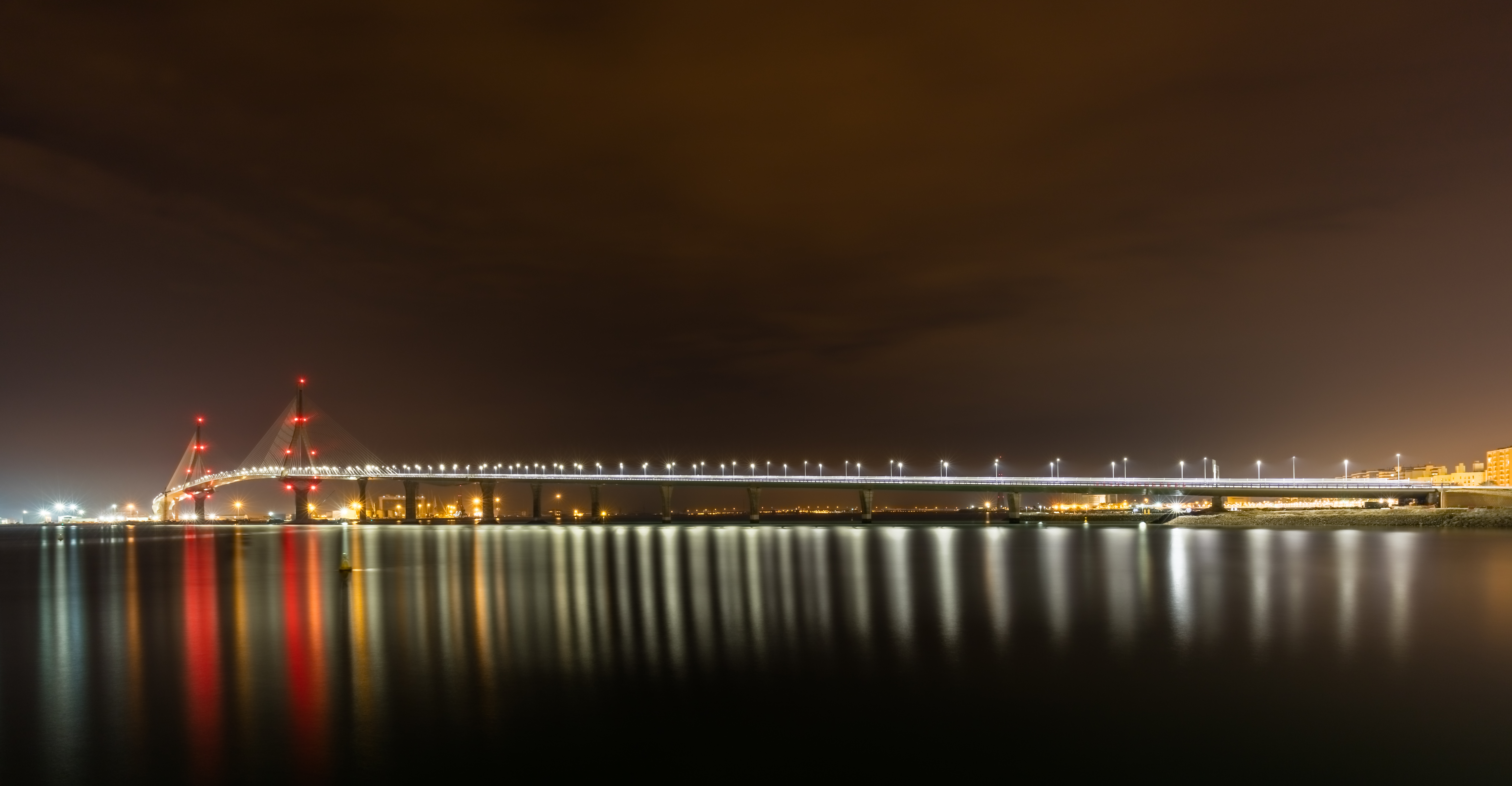 Constitution of 1812 Bridge, Cádiz, Spain